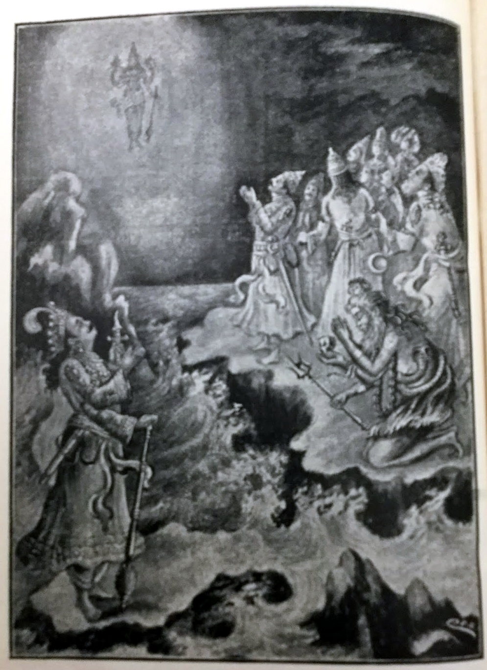 THESE ARE FROM A 100 YEAR OLD BOOK, available in the British library in London.